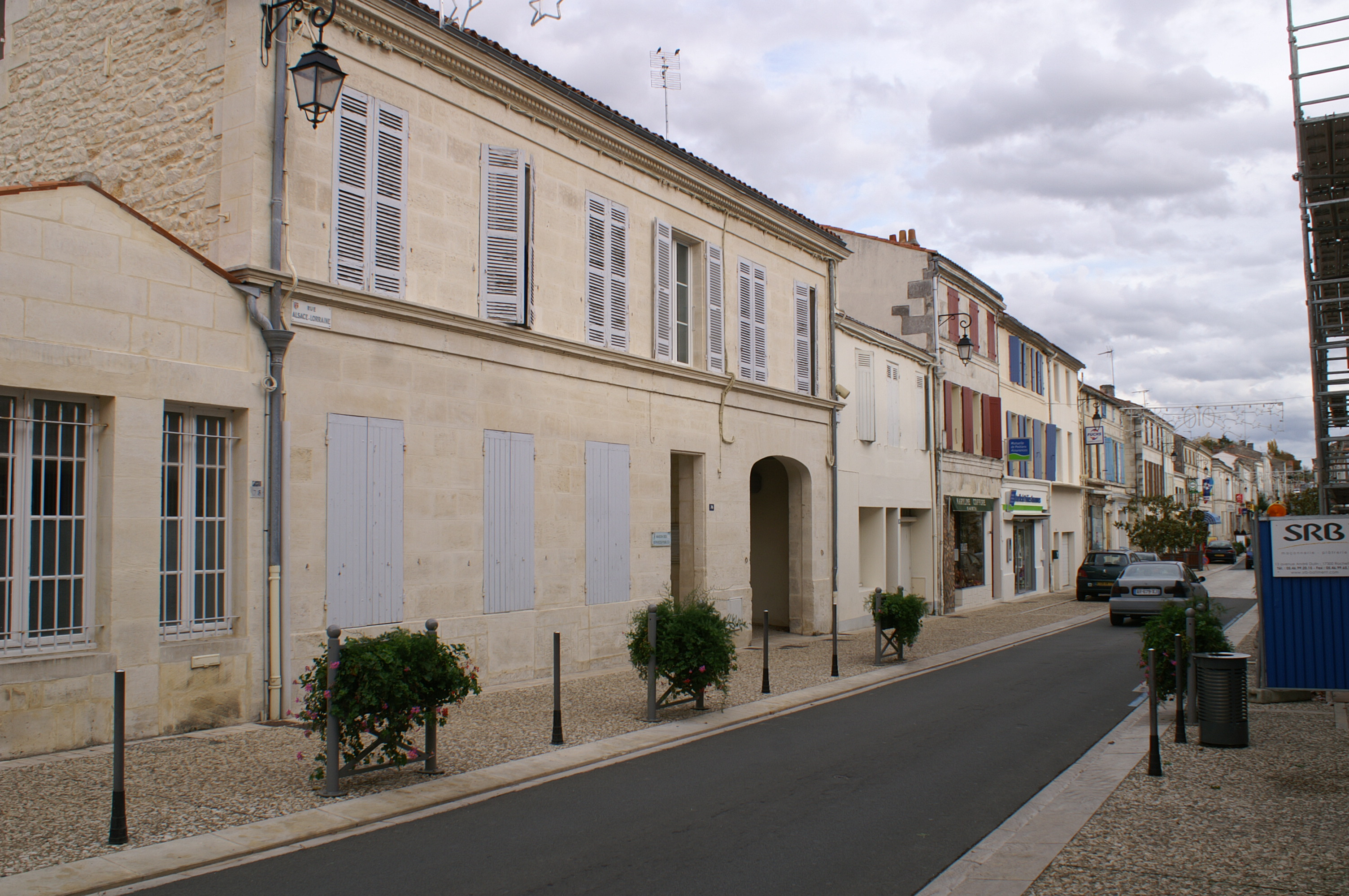 Tonnay-Charente public utilities building in downtown Tonnay-Charente, Charente-Maritime, France.